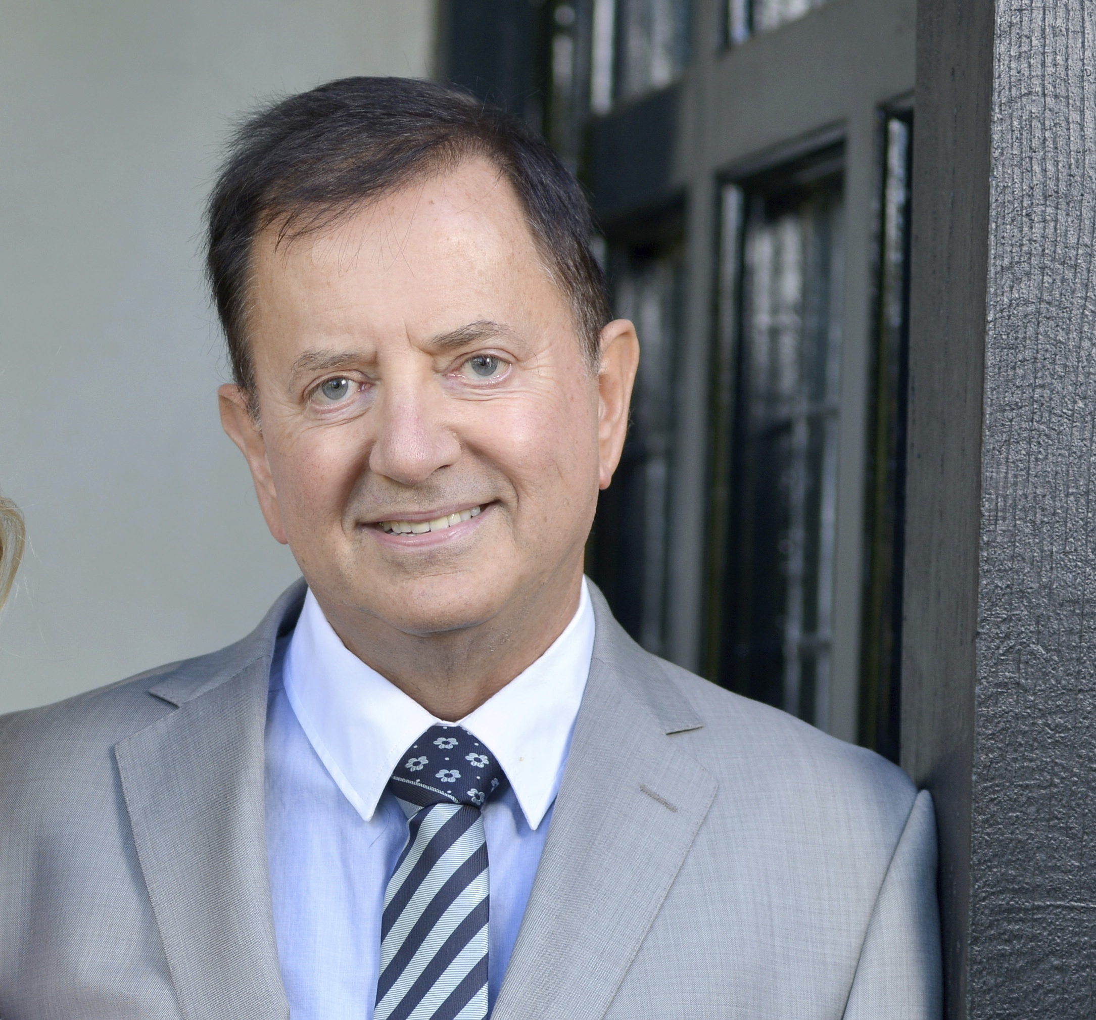 David King (theatre producer), Head and shoulders photo.